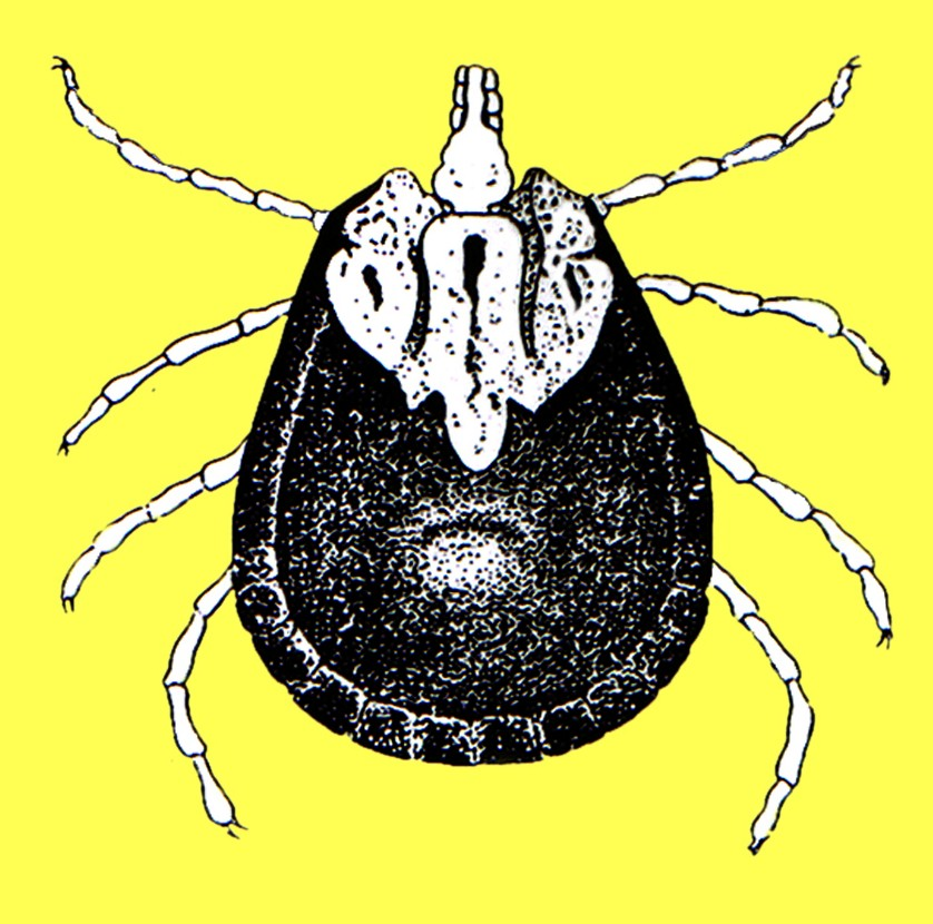 Dermacentor andersoni (Hard tick)